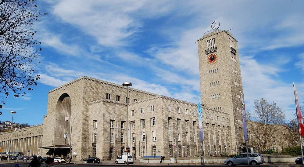 Stuttgart main railway station